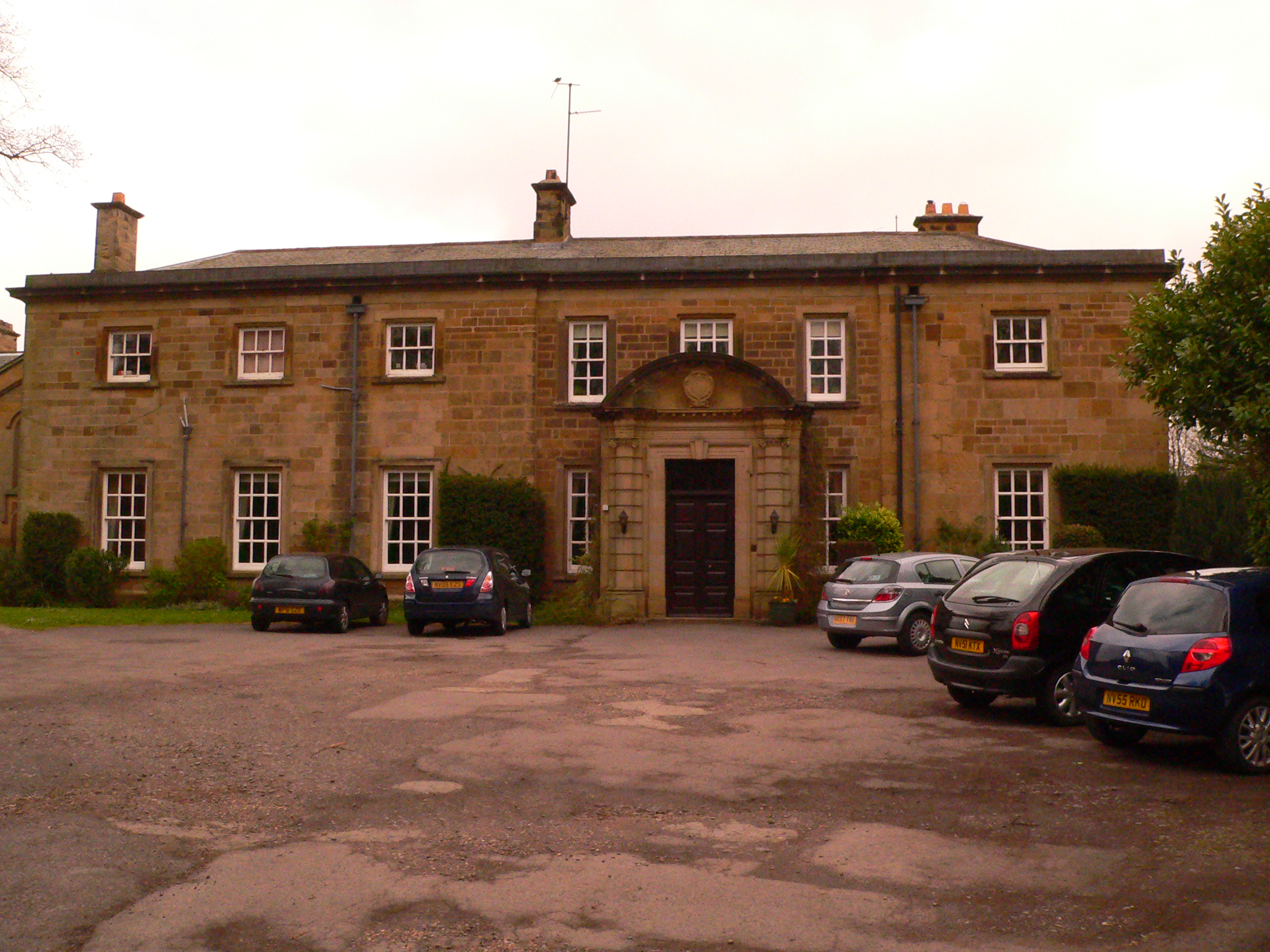 Nunthorpe Hall, Middlesbrough is in Nunthorpe Village about 1 mile south of present day Nunthorpe. TS7.